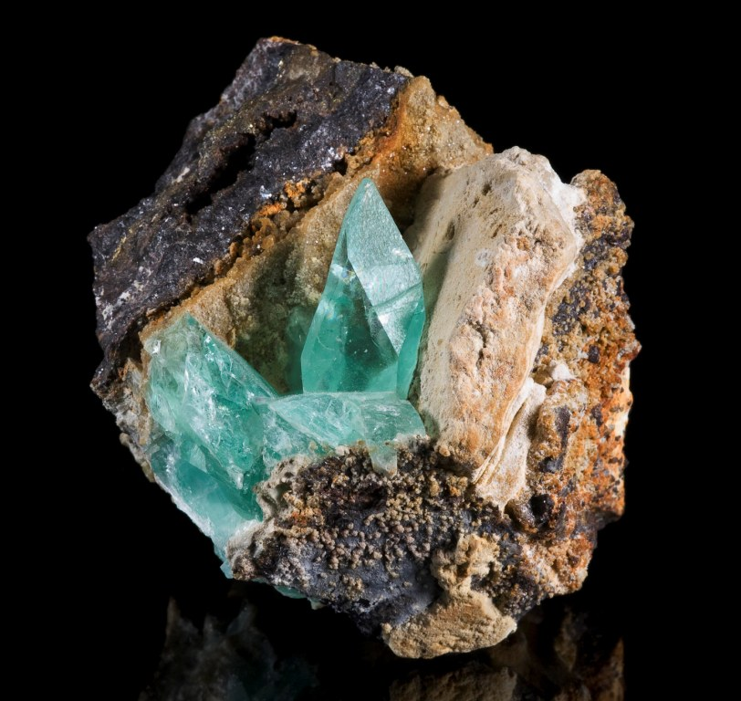 Phosphophyllite Locality: Cerro de Potosí (Cerro Rico), Potosí City, Potosí Department, Bolivia (Locality at ) Size: 5.2 cm x 5 cm x 4.9 cm This piece features a 2-cm-tall phosphophyllite crystal perched in a protected matrix cavity. The old material from the 1940s-1950s is mostly in the form of loose crystals.